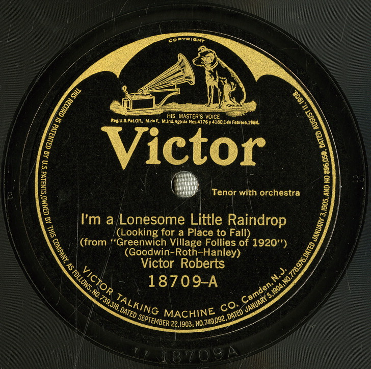 Victor Talking Machine record label for 1920 recording of "I'm a Lonesome Little Raindrop (Looking for a Place to Fall)."